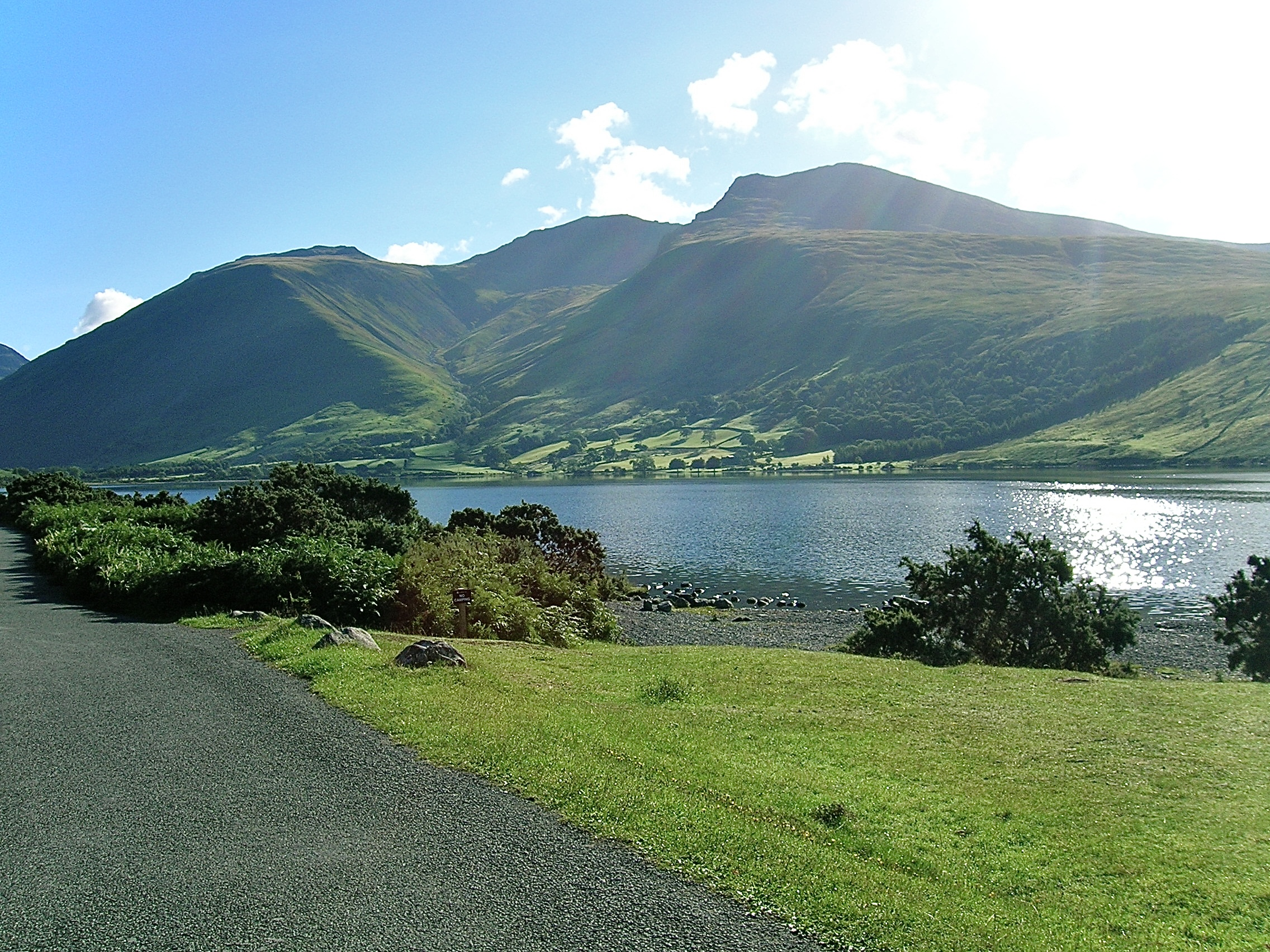 Scafell Pike (middle) from Wastwater Author (myself) Hedley Thorne Taken during 3 British Peaks Challenge